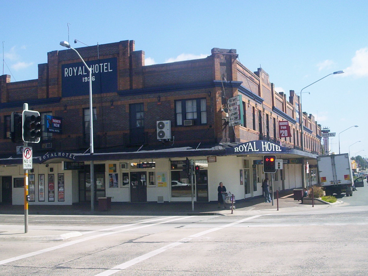 Royal hotel Queanbeyan NSW (1926) on Monaro street. I took the photoCfitzart 01:50, 23 September 2005 (UTC)